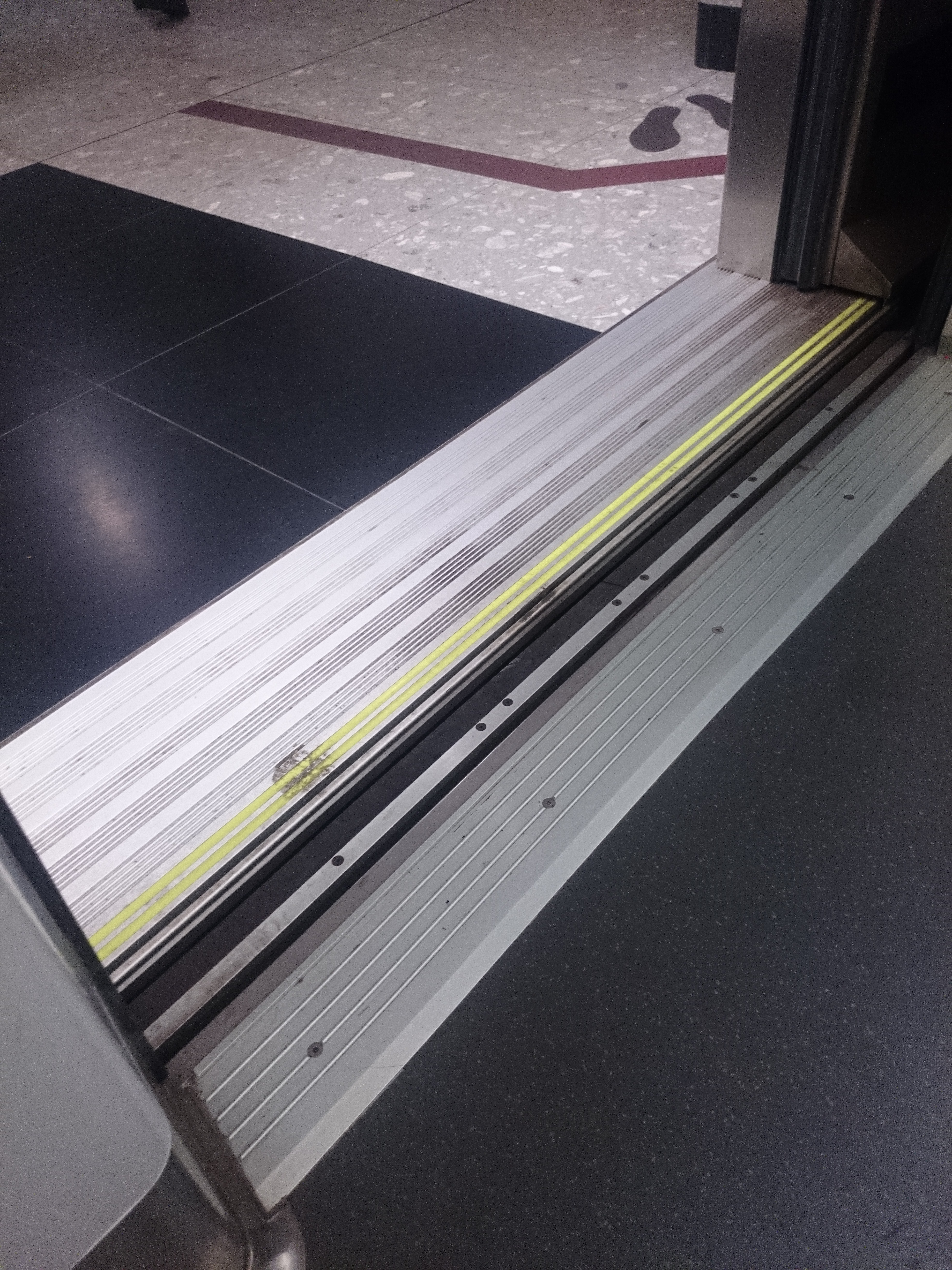 Platform Gap Width Reduction of C951 train, gap is much thinner than other MRT trains in Singapore.